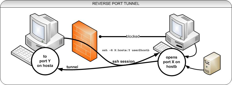 a reverse ssh tunnel